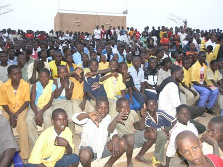 "Hip Hop is a popular medium with Niger’s youth." Outdoor concert in Agadez, Niger during U.S. Embassy Hip-Hop Caravan. U.S. Embassy-sponsored 2009 Hip Hop Caravan, from the Website of the United States Embassy, Niamey.